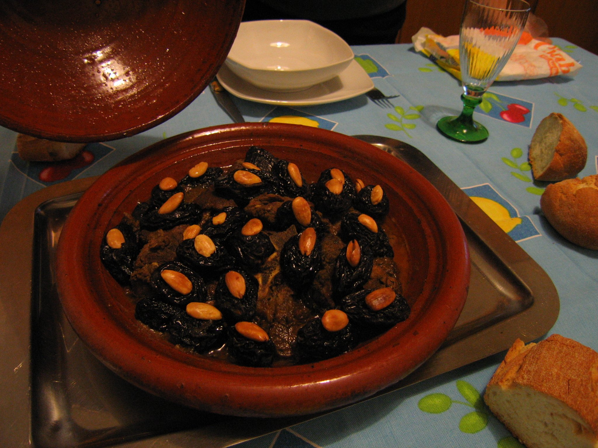 Tajine with calf, prunes and almonds.